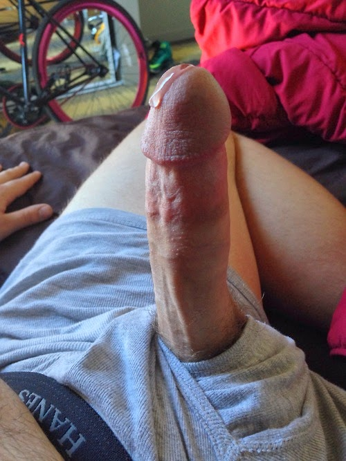 Líquido preseminal